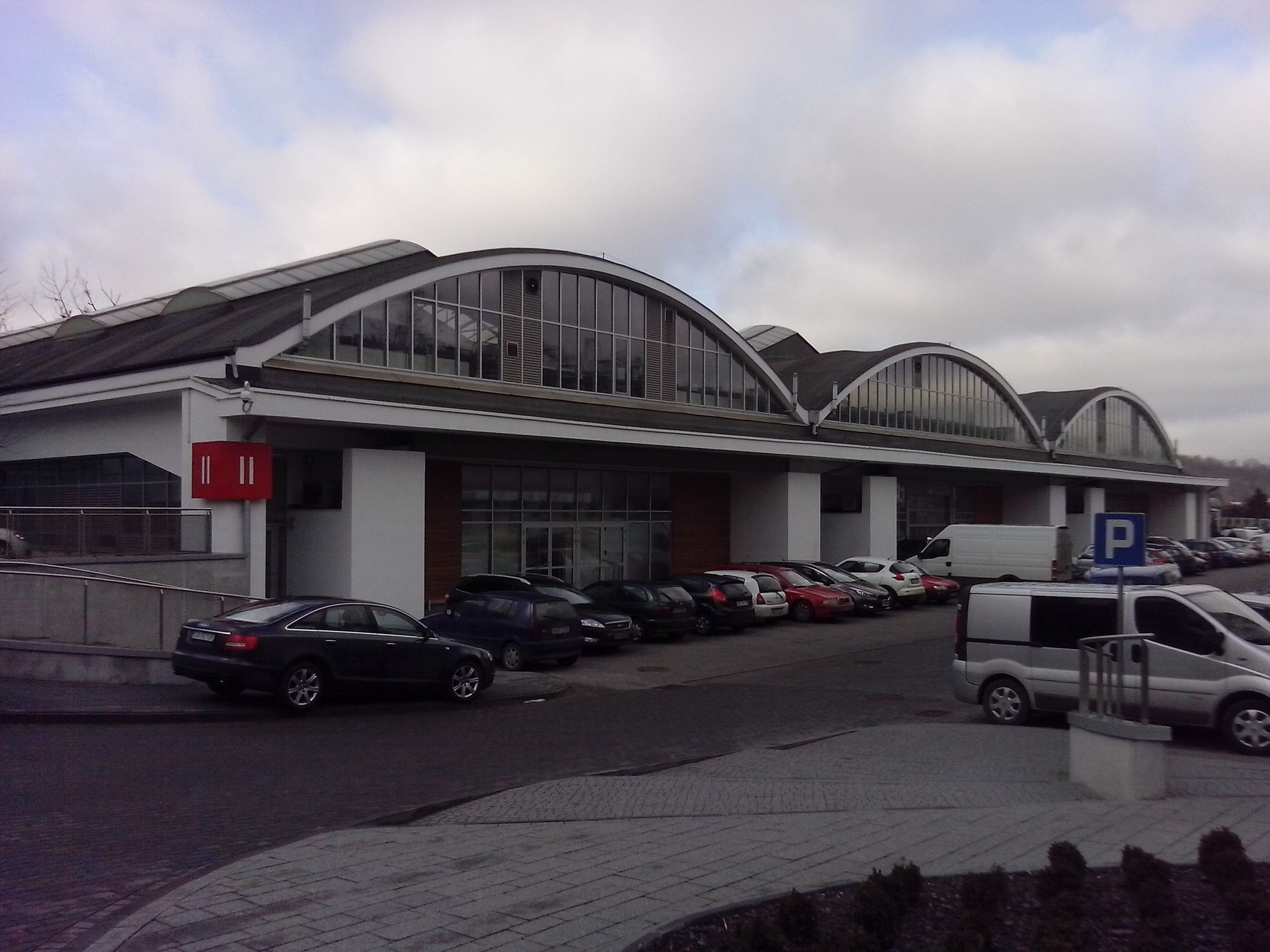 Pomeranian Science park II